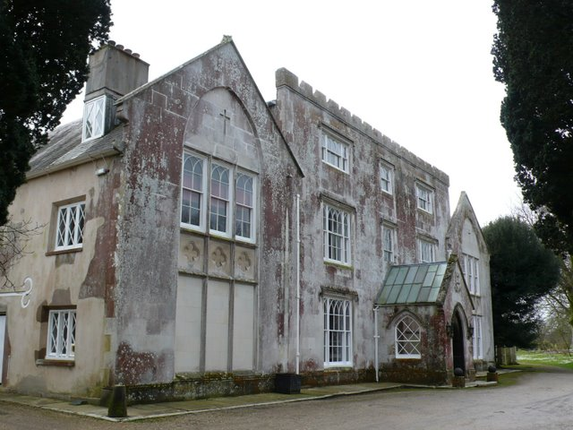 Herringston House The north front of the house which faces the main drive heading north towards Dorchester.